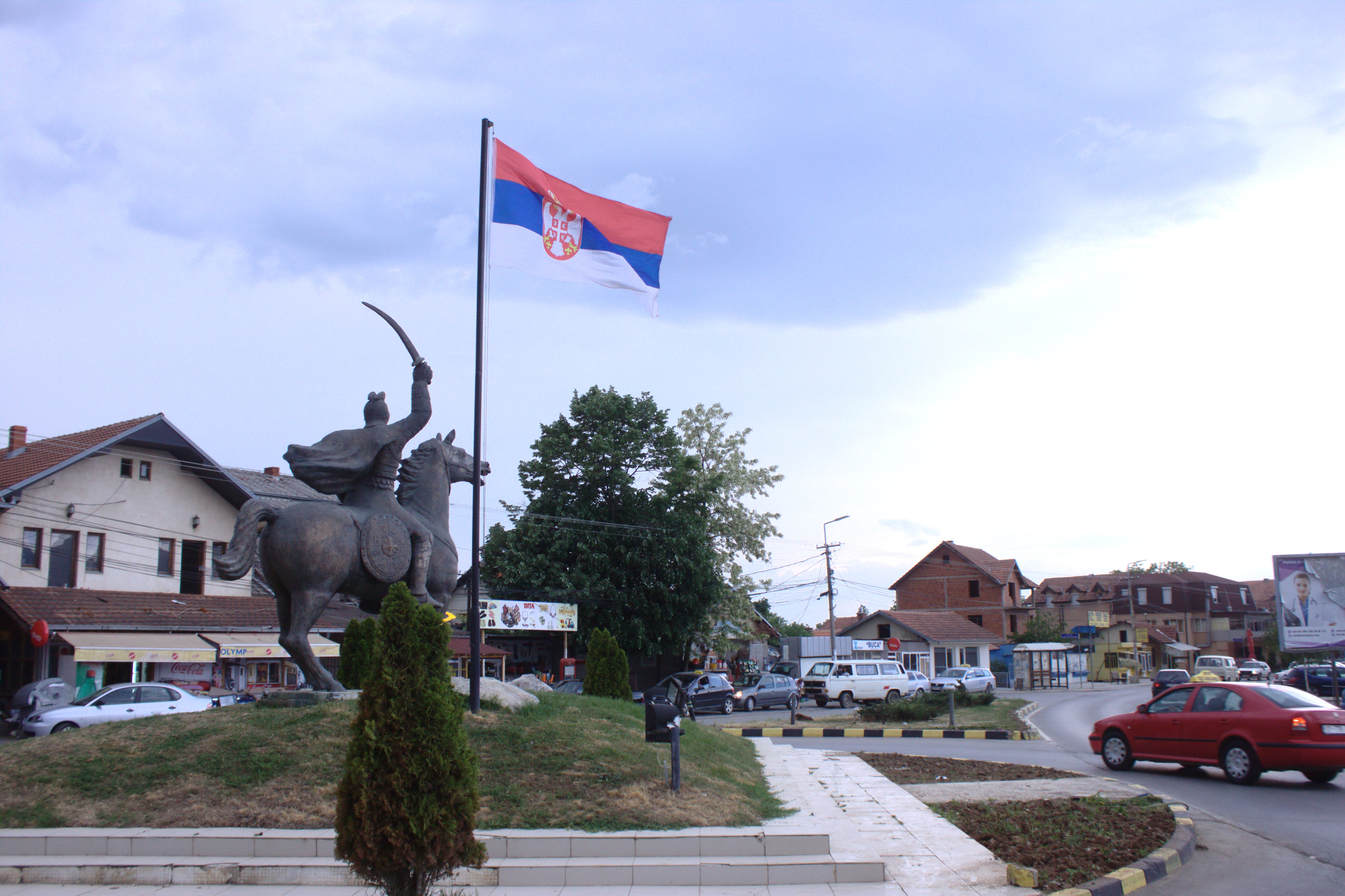 A roundabout in central Gračanica